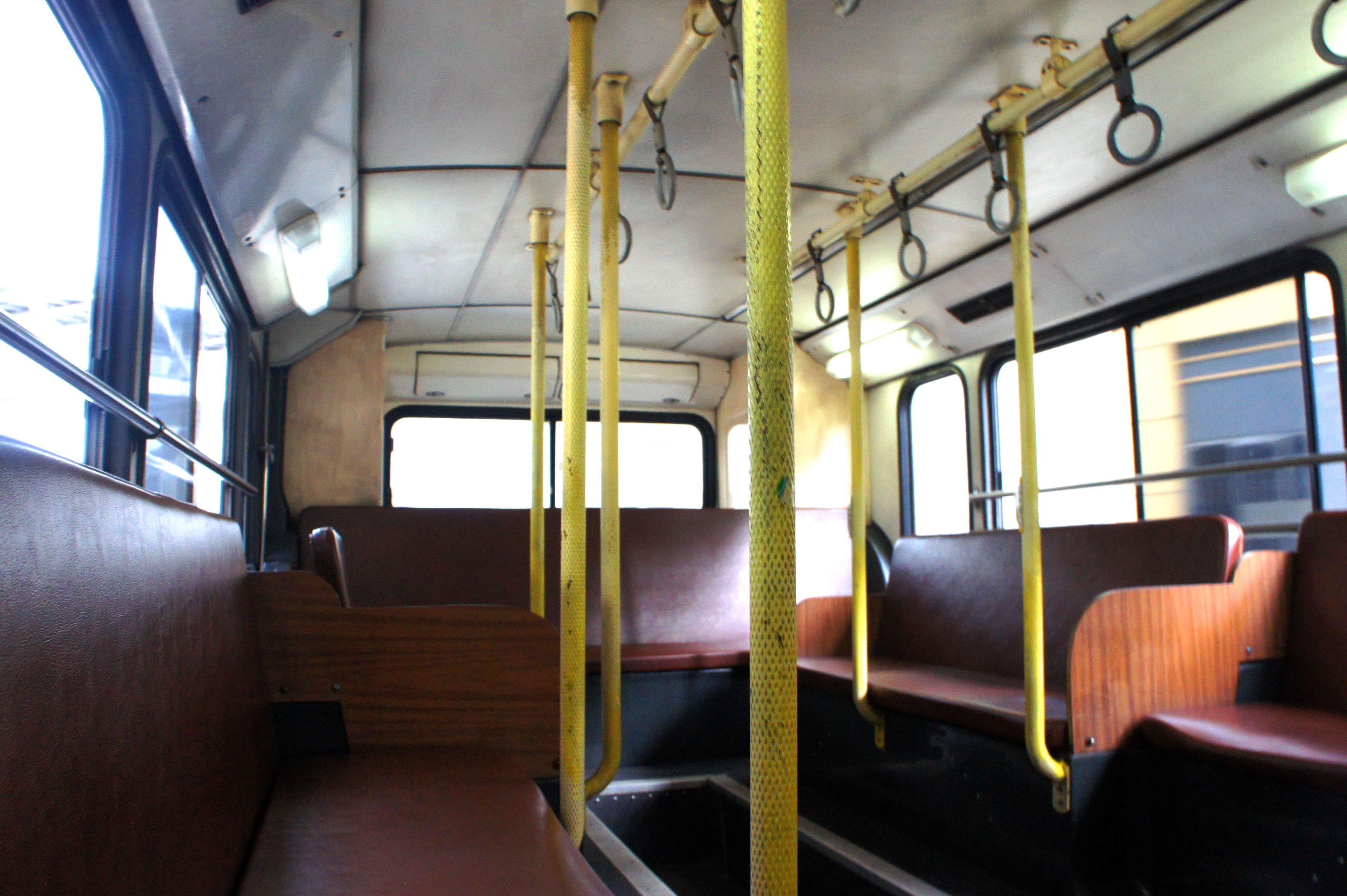 The interior of the lower deck of a KMB Volvo Olympian double decker bus. (S3V18)